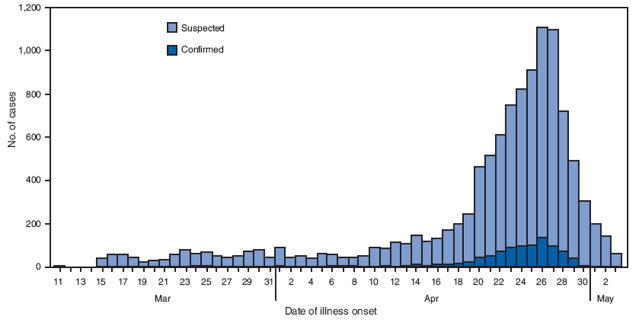 H1N1 virus infection in Mexico with dates of onset from March 11 through May 3, 2009